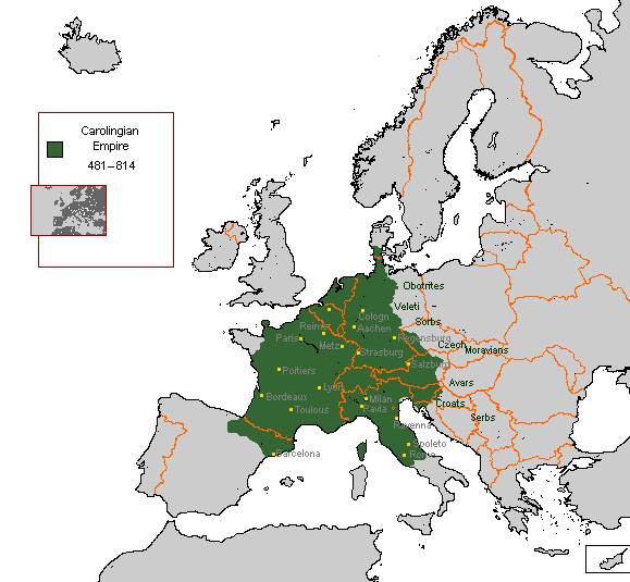 Carolingian Empire